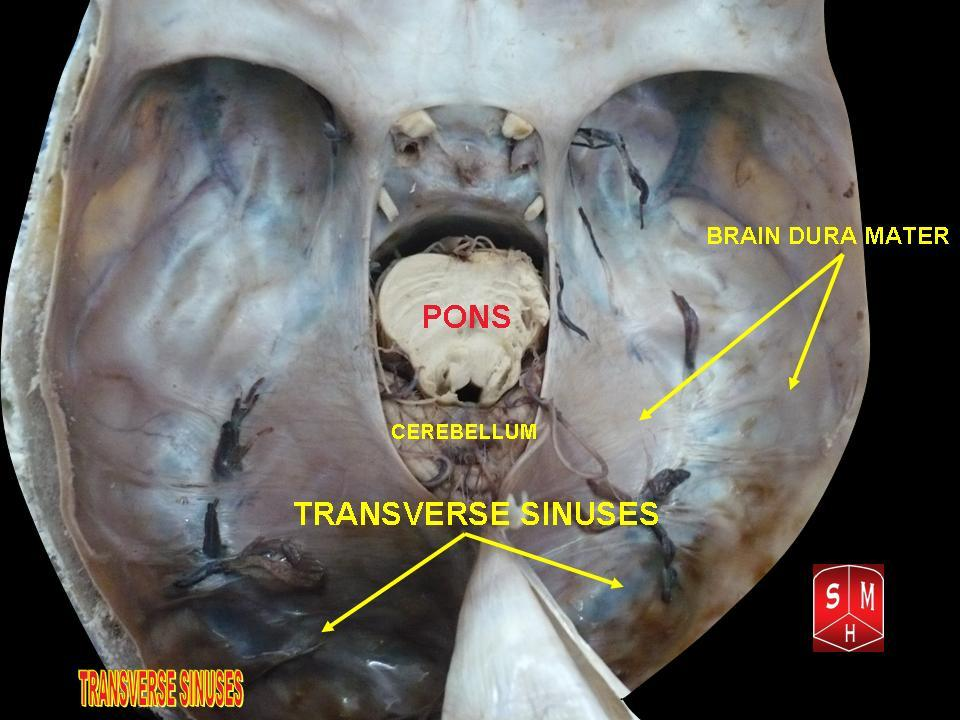 Anatomical preparation